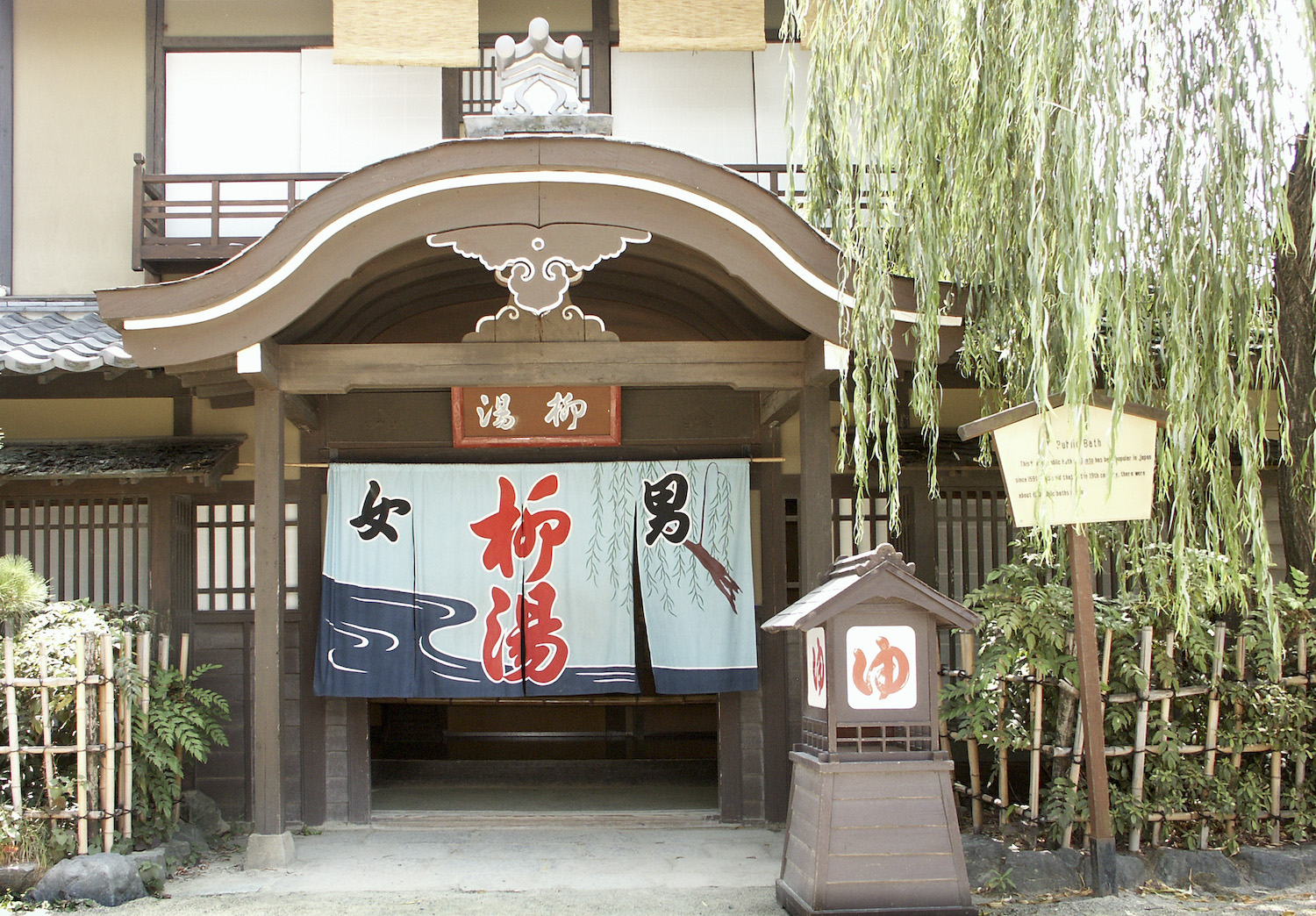 Toei Uzumasa Studios, Kyoto, Japan I contribute my rights in the file to the public domain. People and organizations retain rights to images in the file. Bathhouse used in many jidaigeki